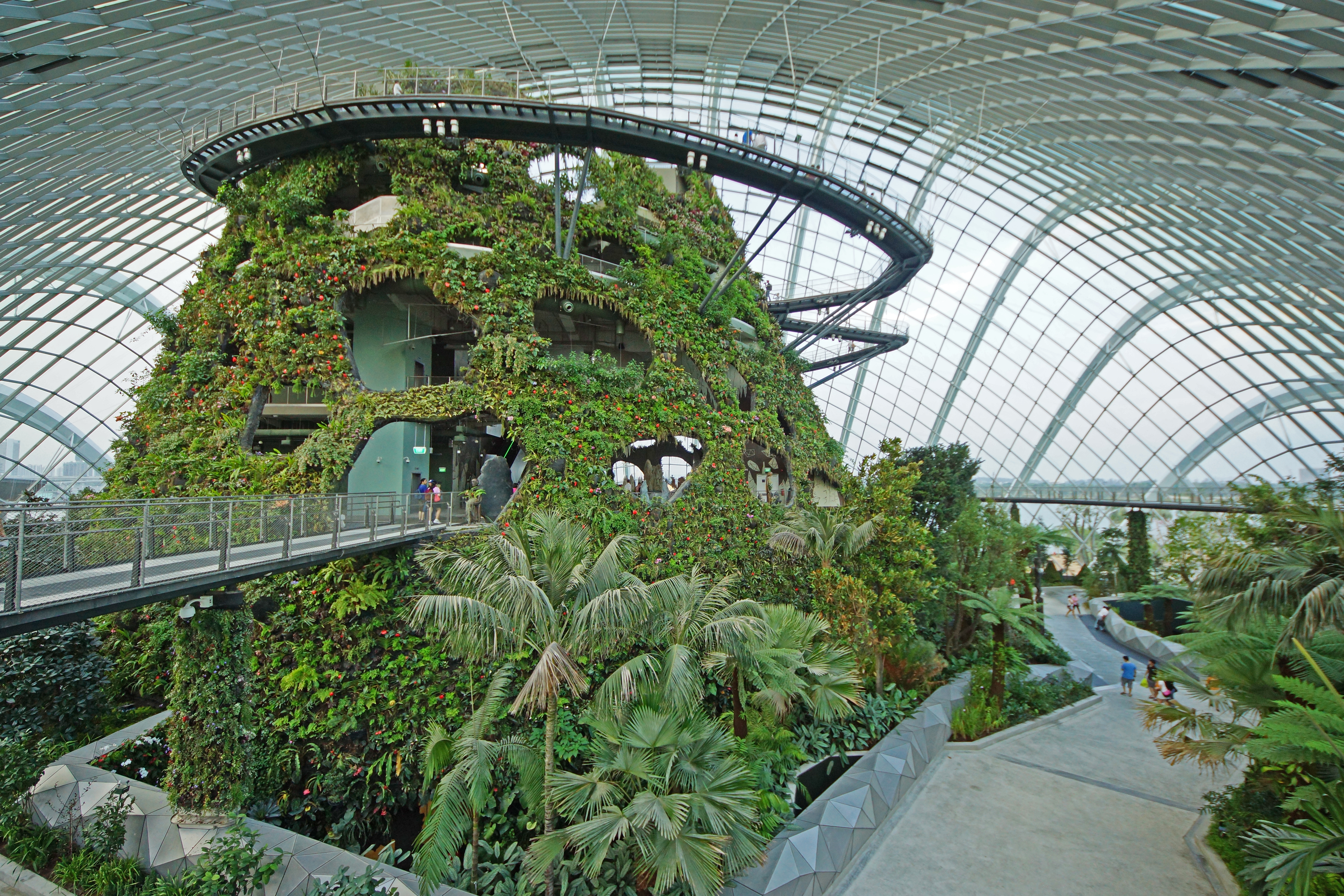 The Cloud Forest at Gardens by the Bay, Singapore.